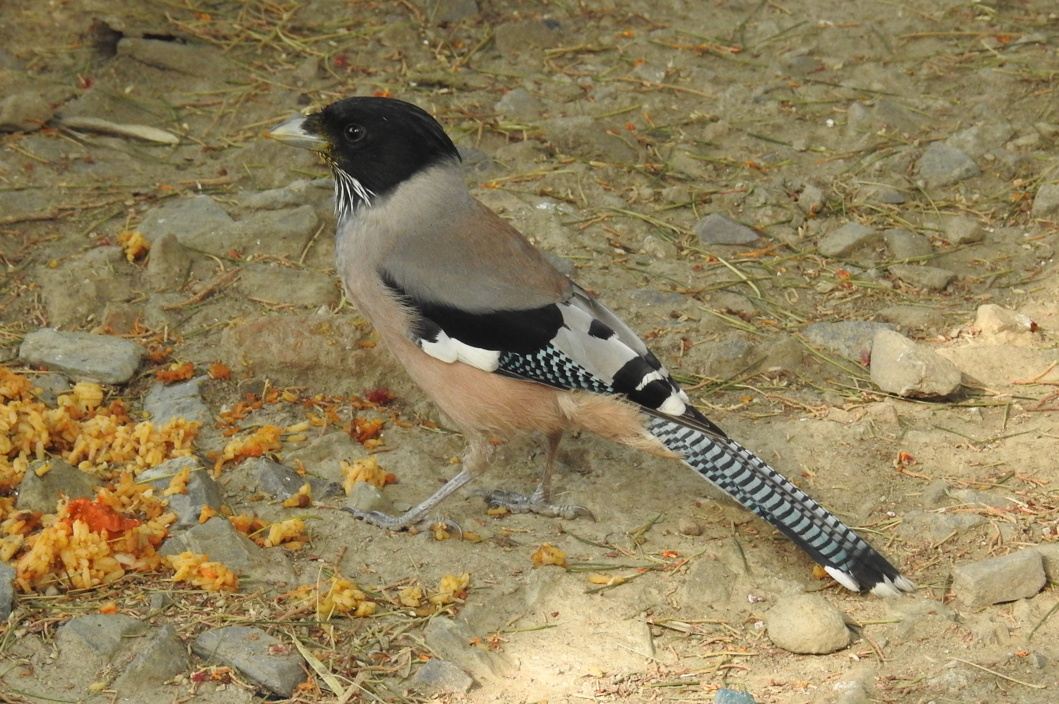 Photographed by Dr. Raju Kasambe in Nainital district, Uttarakhand, India.